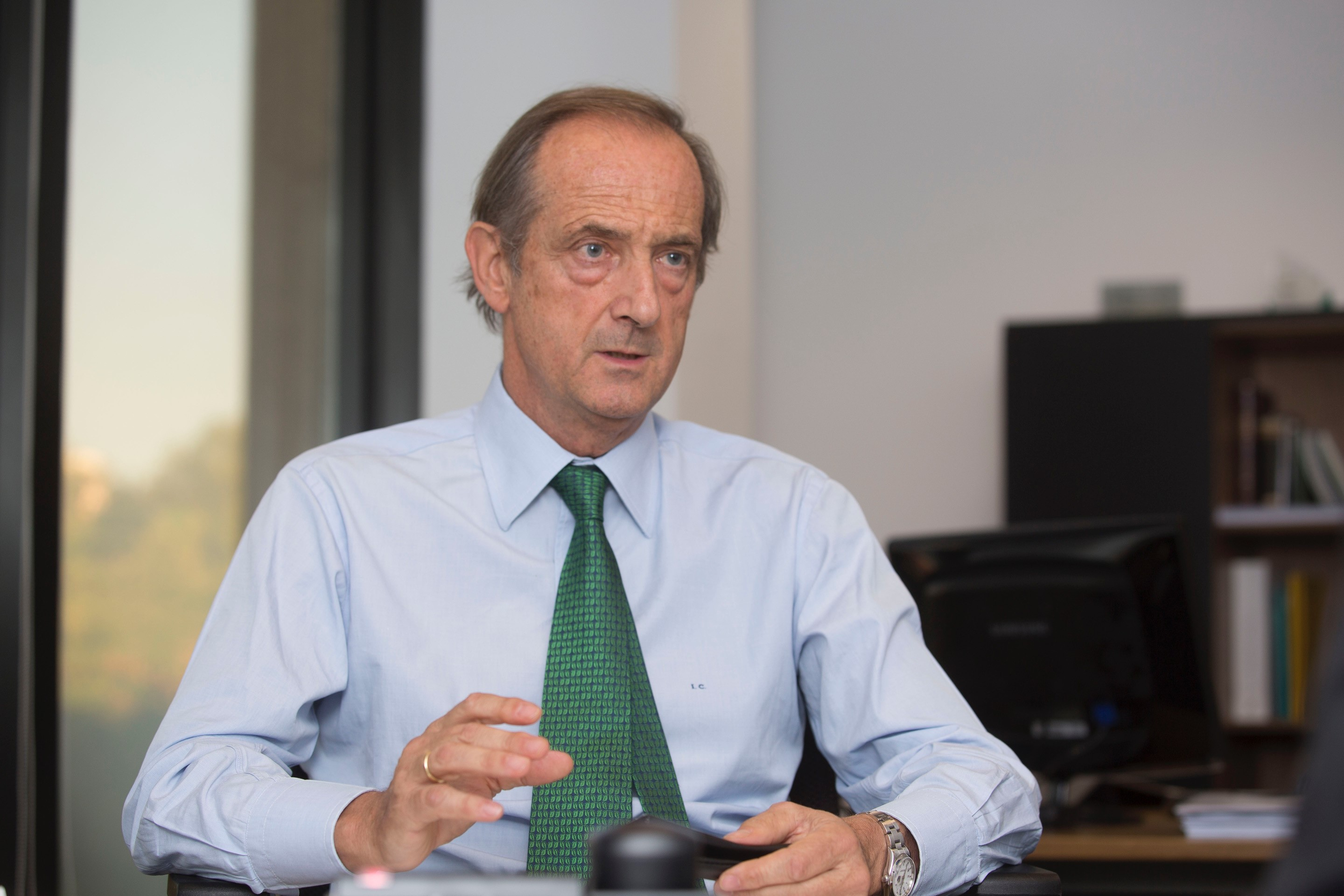 Ignacio Colmenares, President and CEO Ence Energía y Celulosa